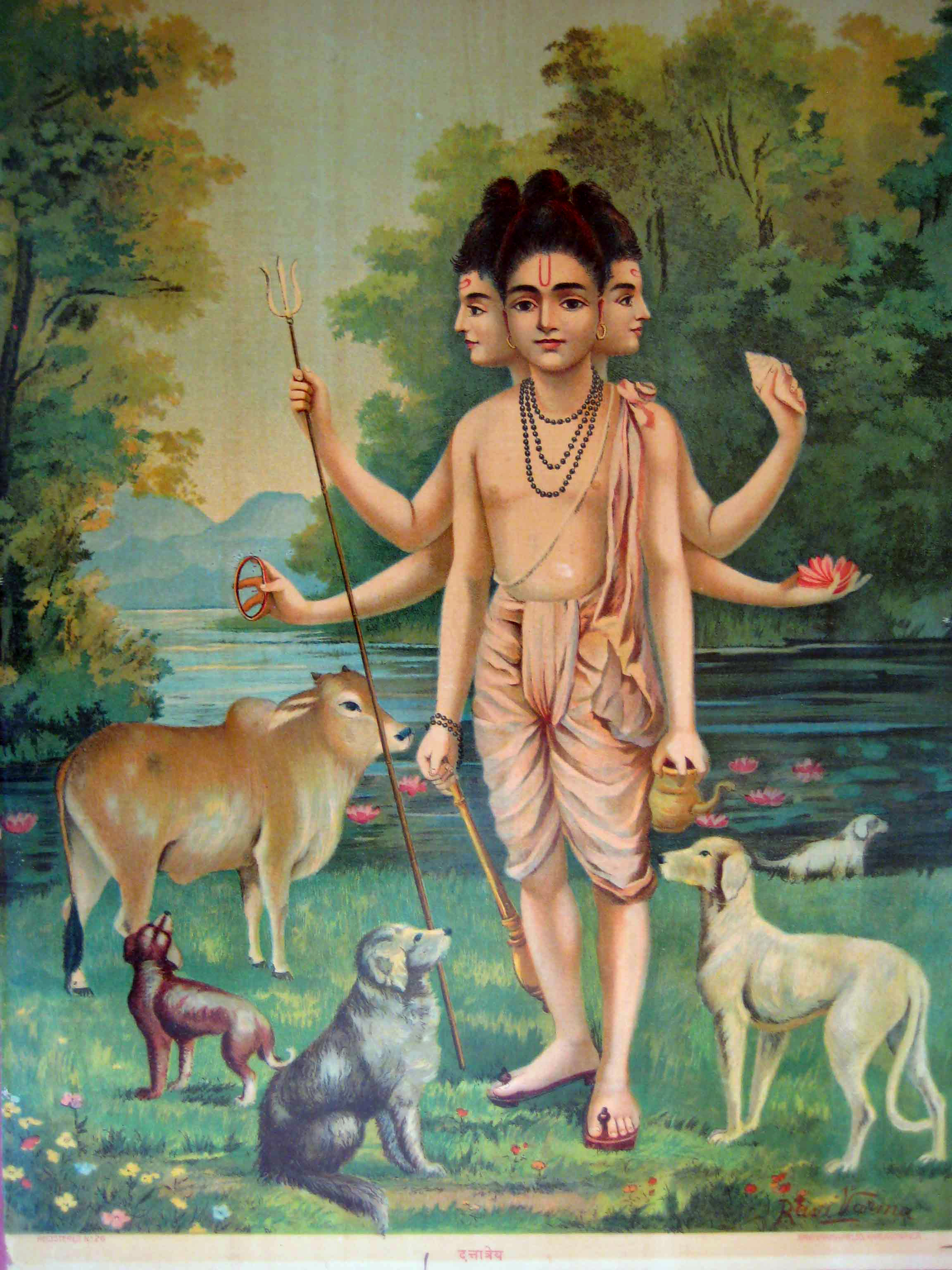 Dattatreya, the incarnation of the thrimoorthis, Brahma, Mahavishnu and Maheswar (Shiva). Printed at Ravi Varma Press, Malavli near Lonavala, Maharashtra.